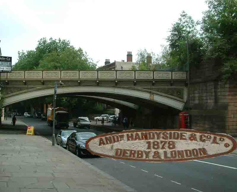 Andrew Handyside's Railway Bridge at Friar Gate, Derby. with inset manufacturer's plaque "Andw Hadyside" dated 1878.